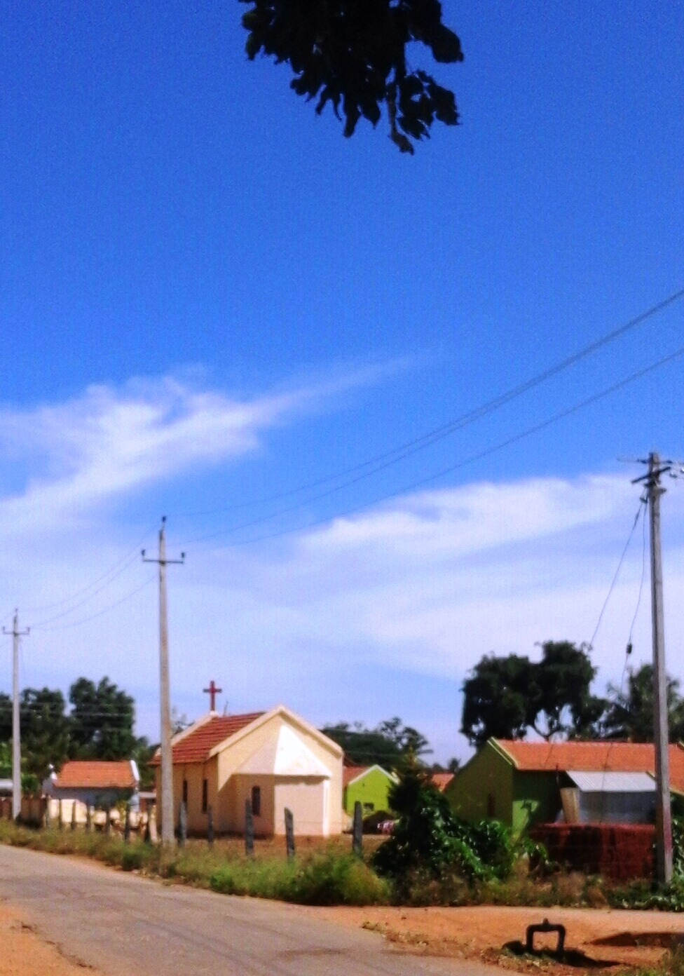 Mariyala Gangavadi village, Chamarajanagar town, Near Mysore city, Karnataka state, India.